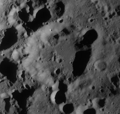 LROC WAC image No. M130782971ME.